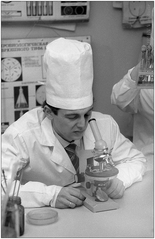 The professor with the microscope.